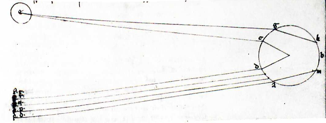 Theodoric of Freiberg: De Iride II,21. In: Manuscript Basel F. IV.30, f. 23r.